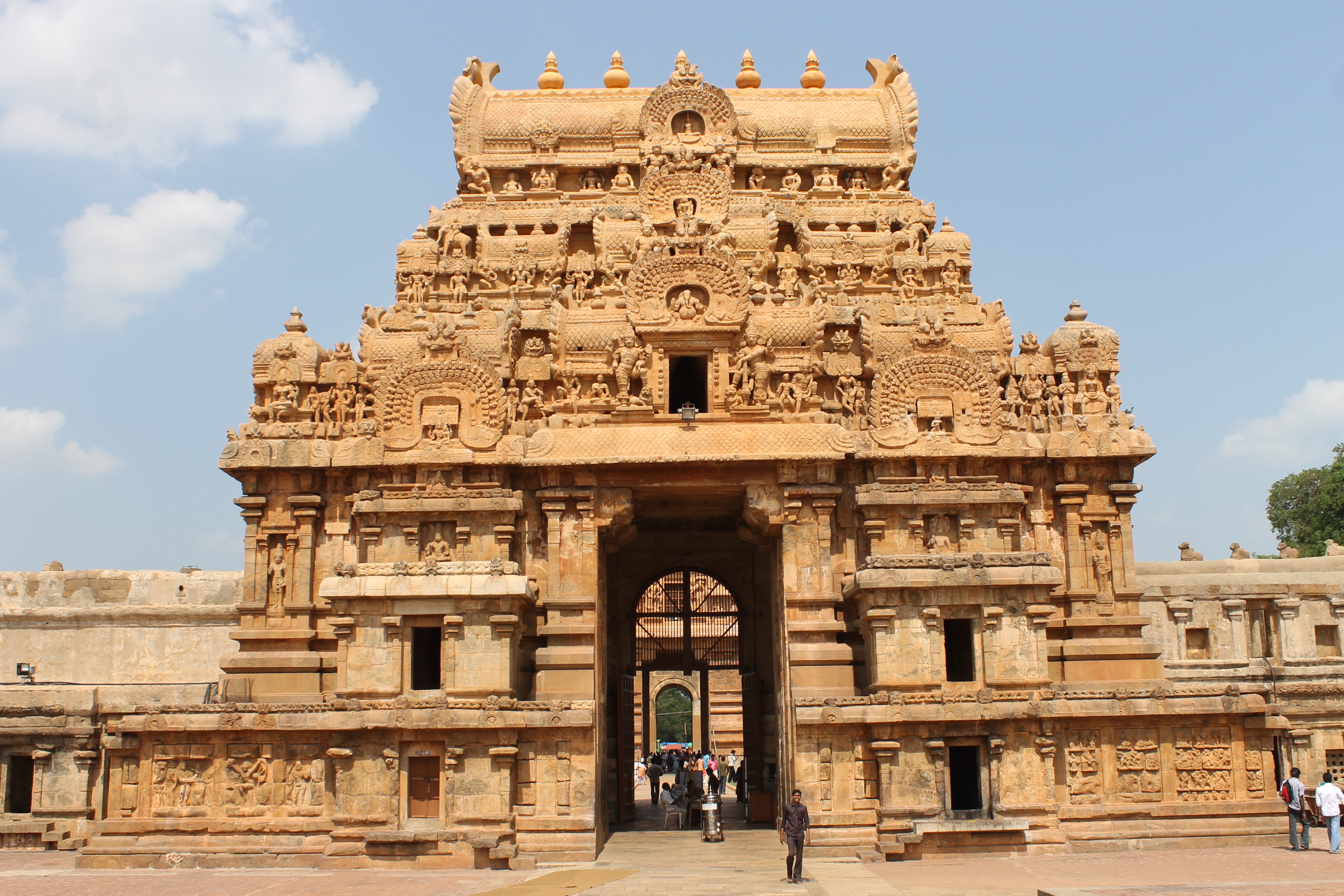 "A beautiful stone work on Rajarajan Entrance The Big Temple". Location: Thanjavur and district, The State of Tamil Nadu, India.